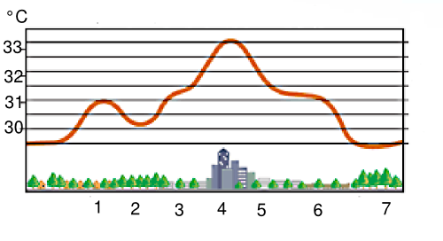 Urban heat island profile. 1=Suburban residential, 2=Park; 3=Urban residential; 4=Downtown; 5=Commercial; 6=Suburban residential; 7=Rural